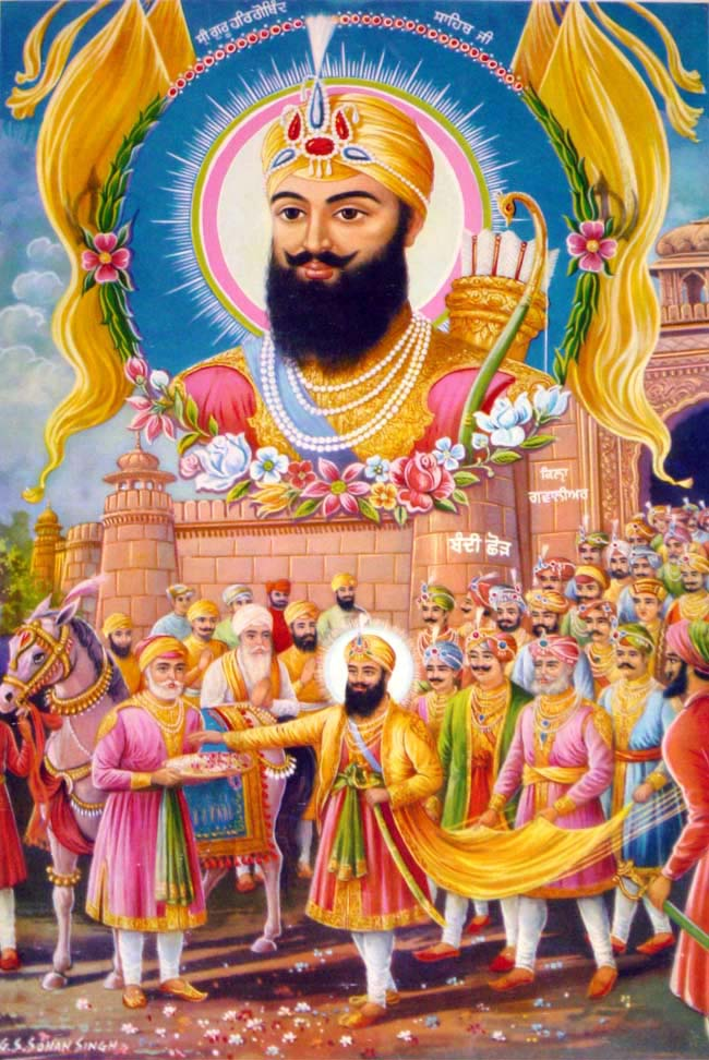 6th Sikh Guru Hargobind Rai is released from Gwalior Fort by Jahangir's order, c.1619 Source: ebay, Apr. 2005